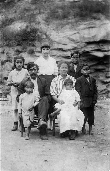 Arch Goins and family, Melungeons from Graysville. Archival family photograph from the 1920s, provided to by Barbara Goins.